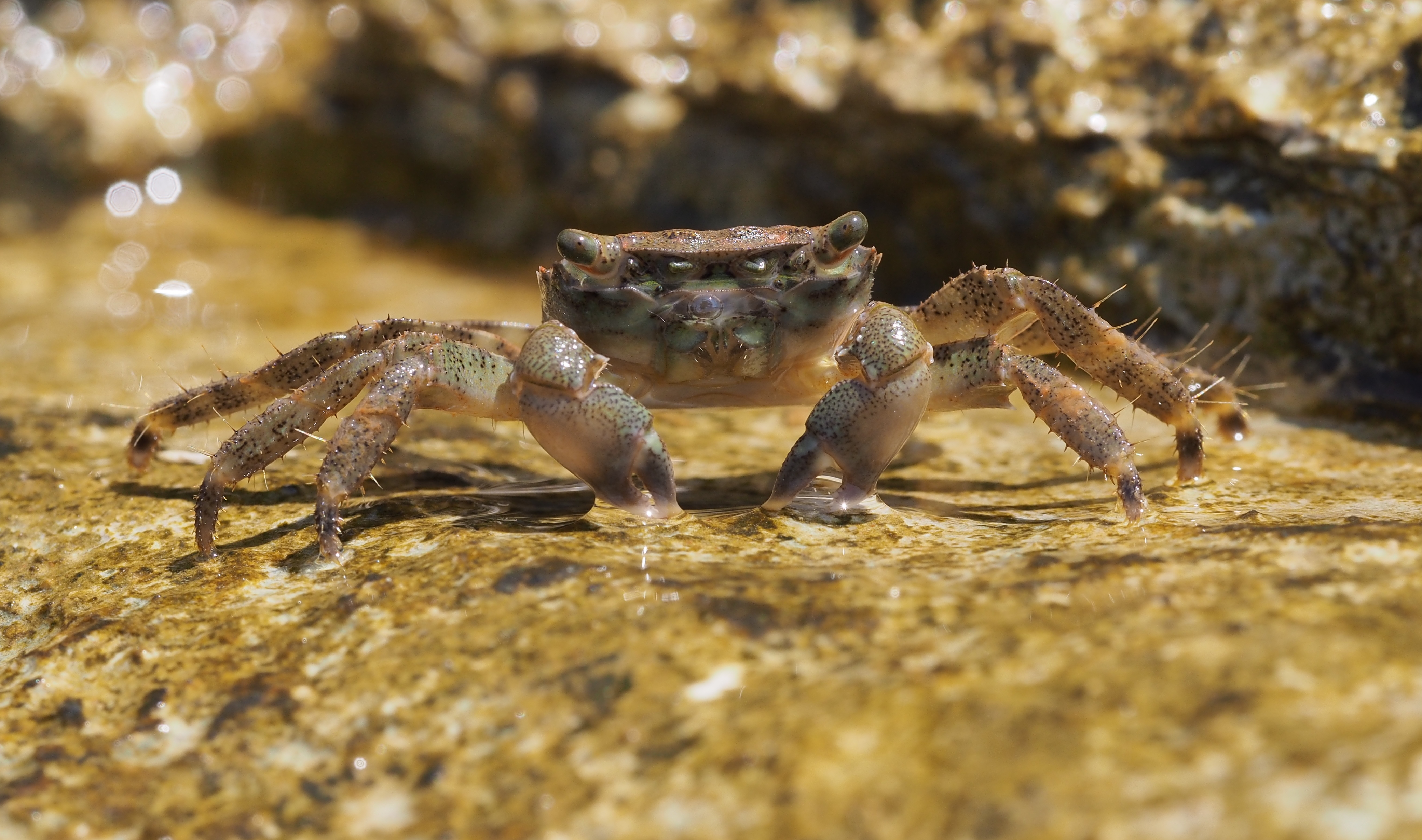 Crab (Pachygrapsus marmoratus) on Istrian coast (Adriatic sea) This photograph was taken with an Olympus E-P5